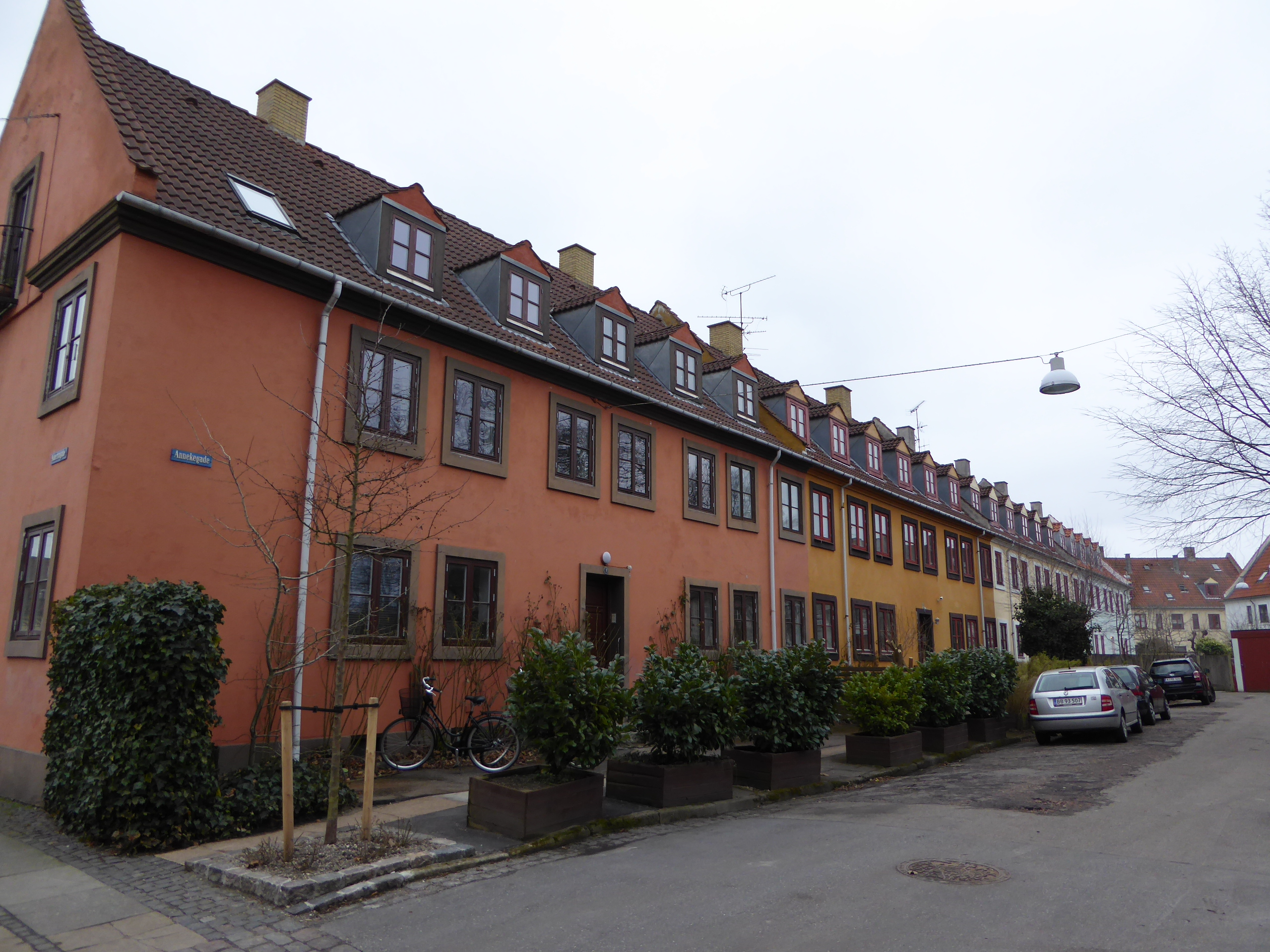 The street Annekegade in the neighborhood Vibekevang in Østerbro in Copenhagen.